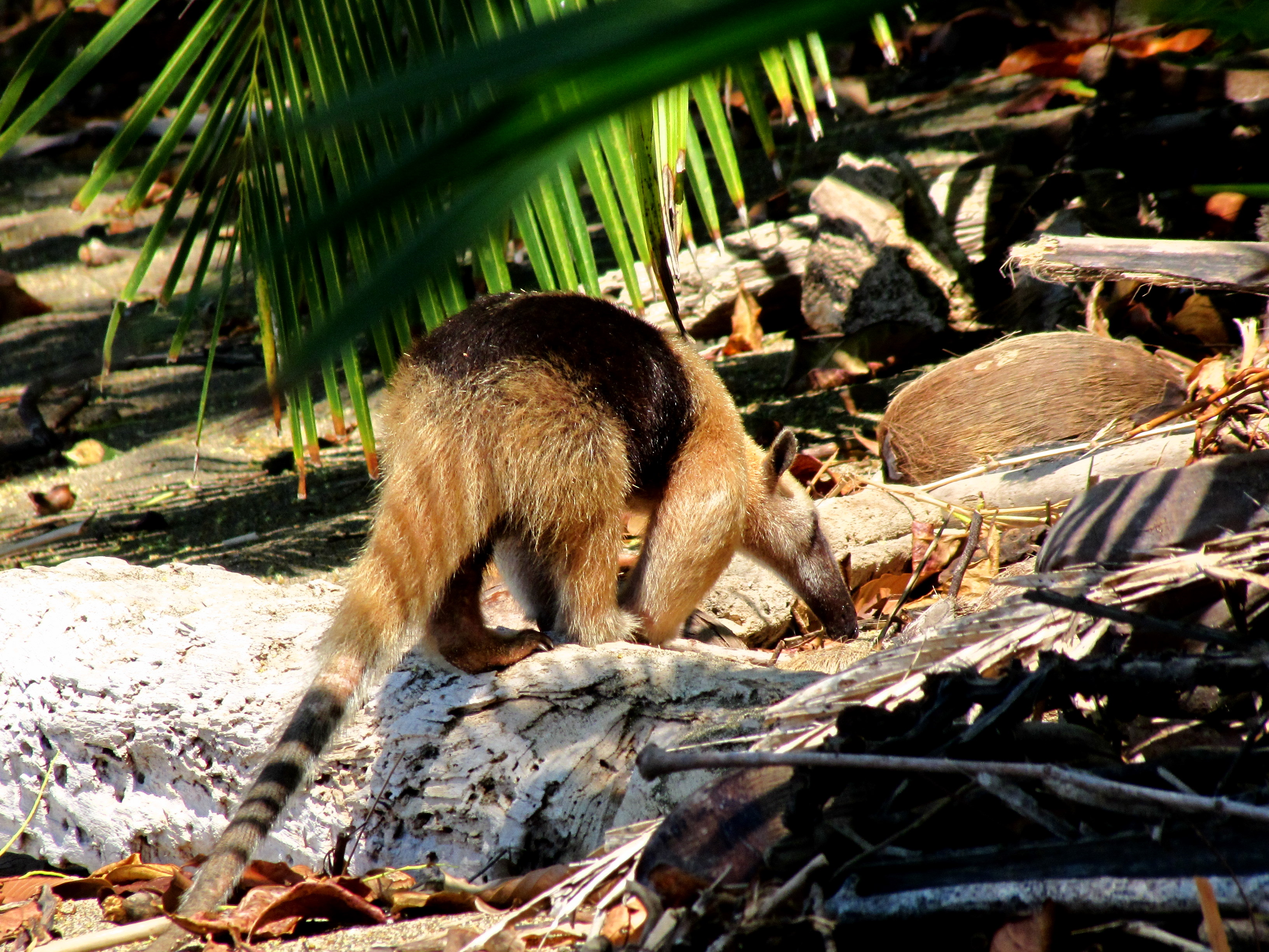 This photograph of this tamandua was taken in the Corcovado National Park